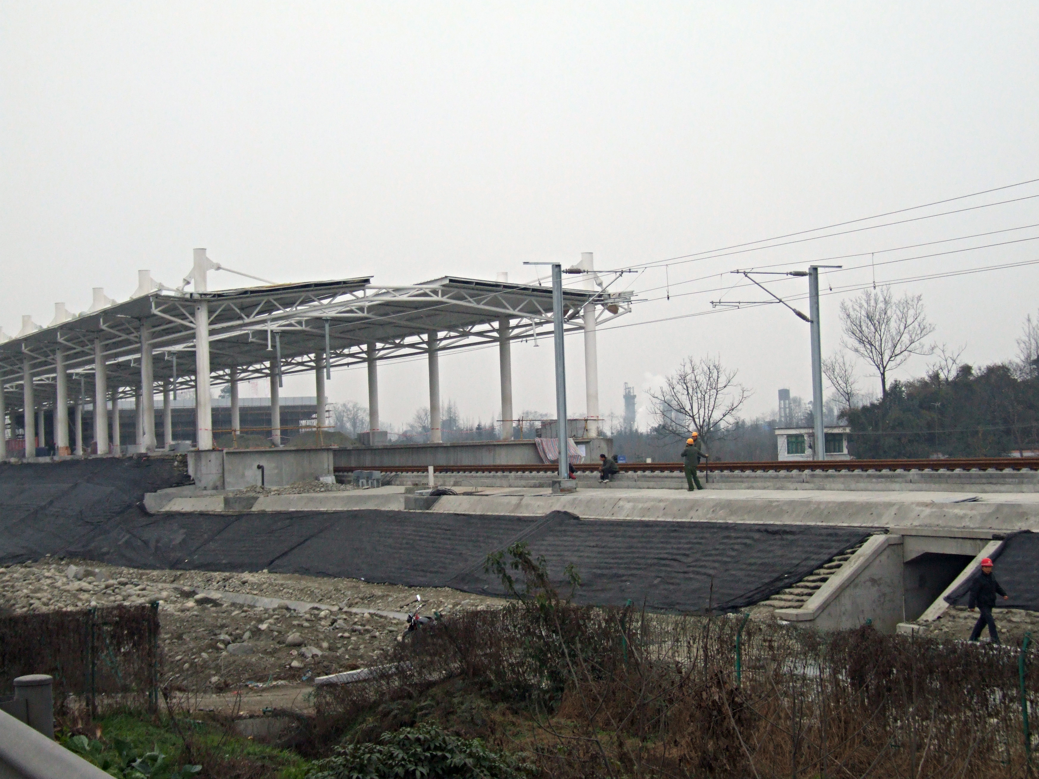 The Cheng(du)-Guan(xian) high-speed railway. NOTE: The date of taking this picture is exactly February 19, 2010. However, because I forgot to set the right time after I changed my camera's battery a few days ago, the date in the detail information is January 11, 2005, which is not right.